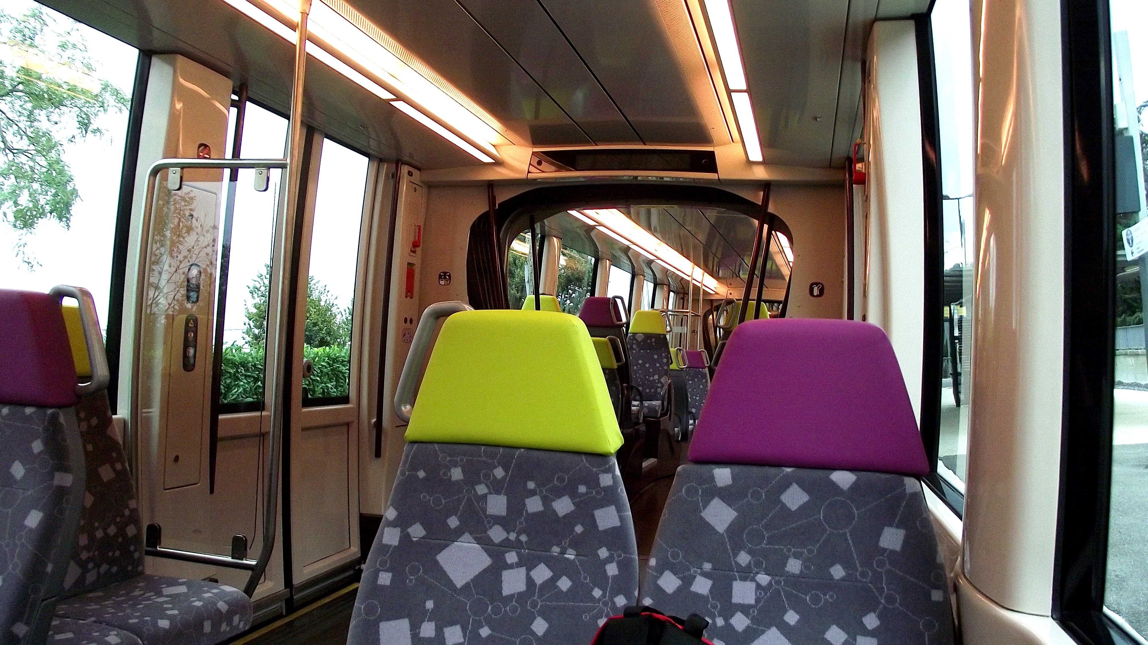 Tramtrain Lyon interior